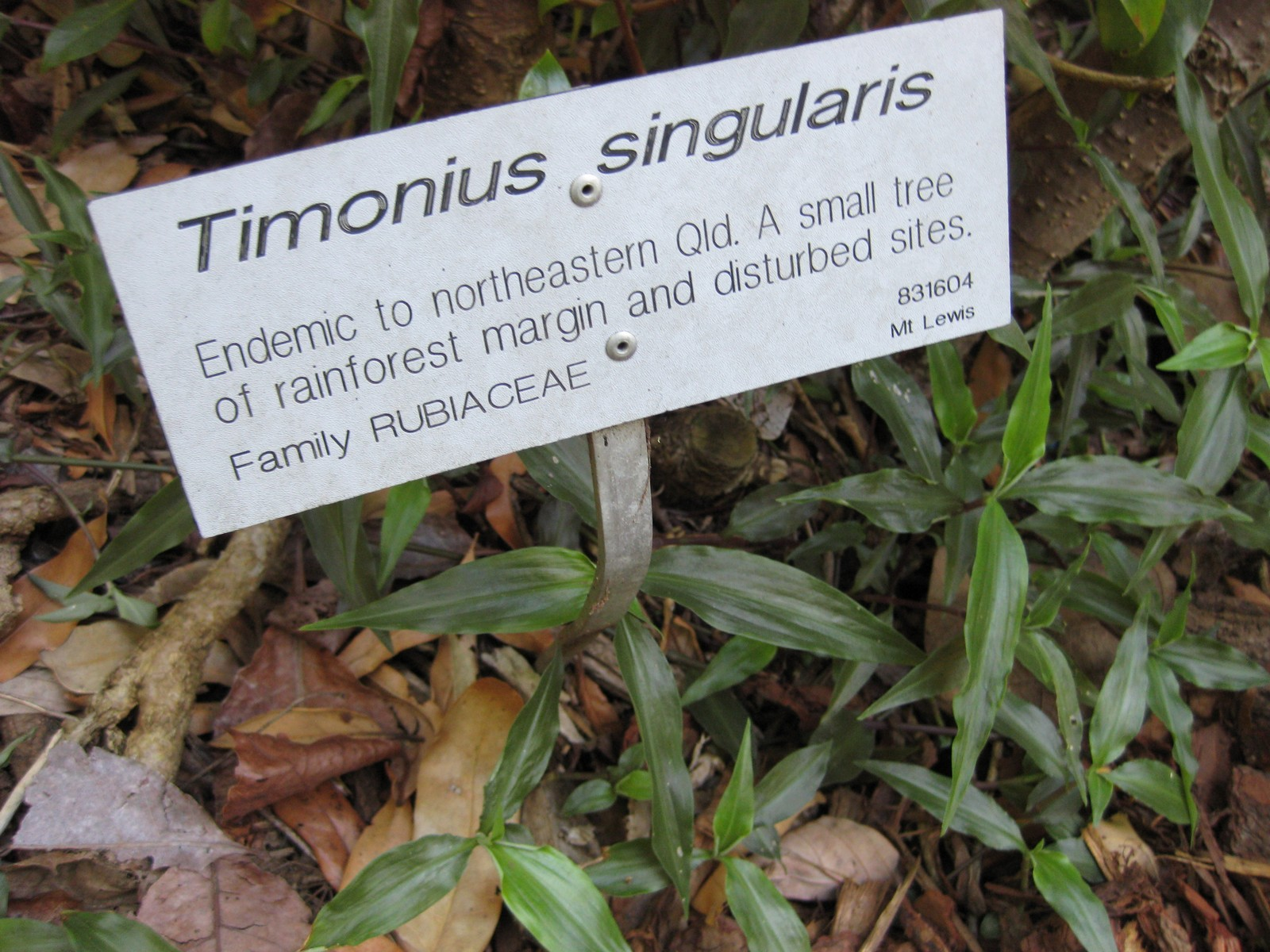 Photographed at the Royal Botanic Gardens Sydney (Australia) in December